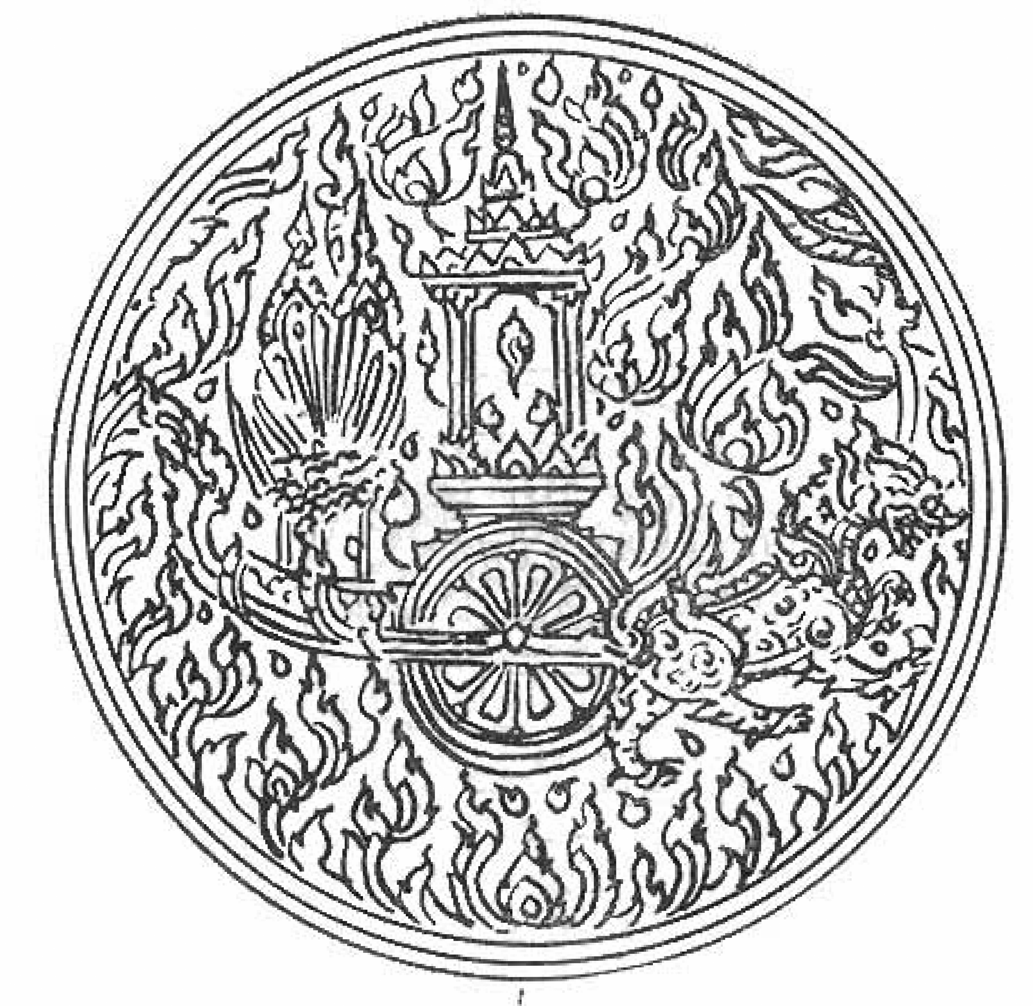 The Great Seal of the Solar Sphere, see detailed information in The Royal Emblems and the Positional Seals by Phraya Anumanratchathon (Yong Sathiankoset).